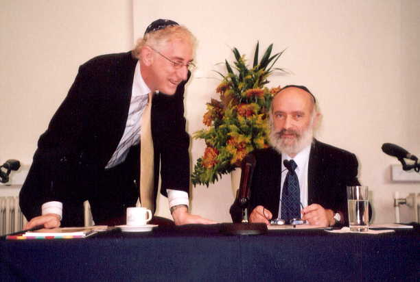 Rabbi Vorst is the Chabad Head Shliach of the Netherlands and the Rabbi of the Jewish community in Amsterdam/ Holland.